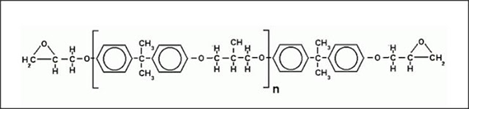 Bisfenol A